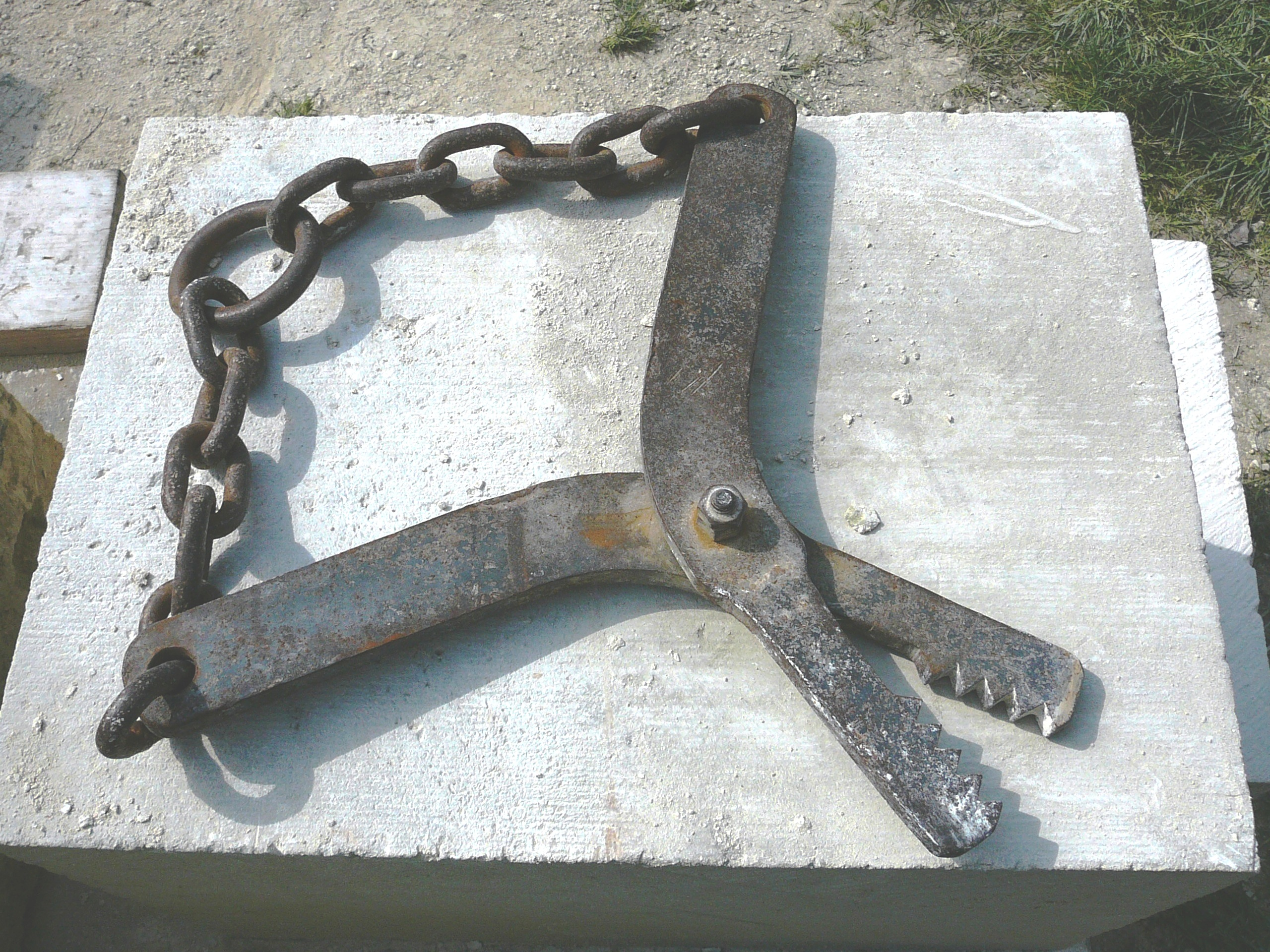 a hoisting tool used by stonemasons and quarrymen